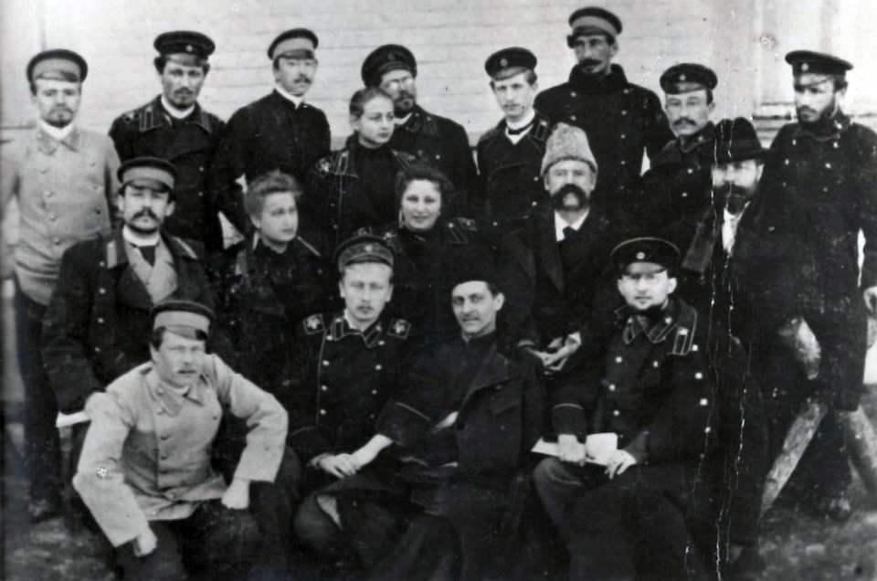 Mykola Mihnovsky with his followers in Kharkiv, Ukraine